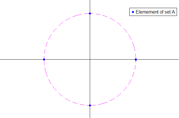 Four points on the unit circle, defining set "A" for an example in shattering.